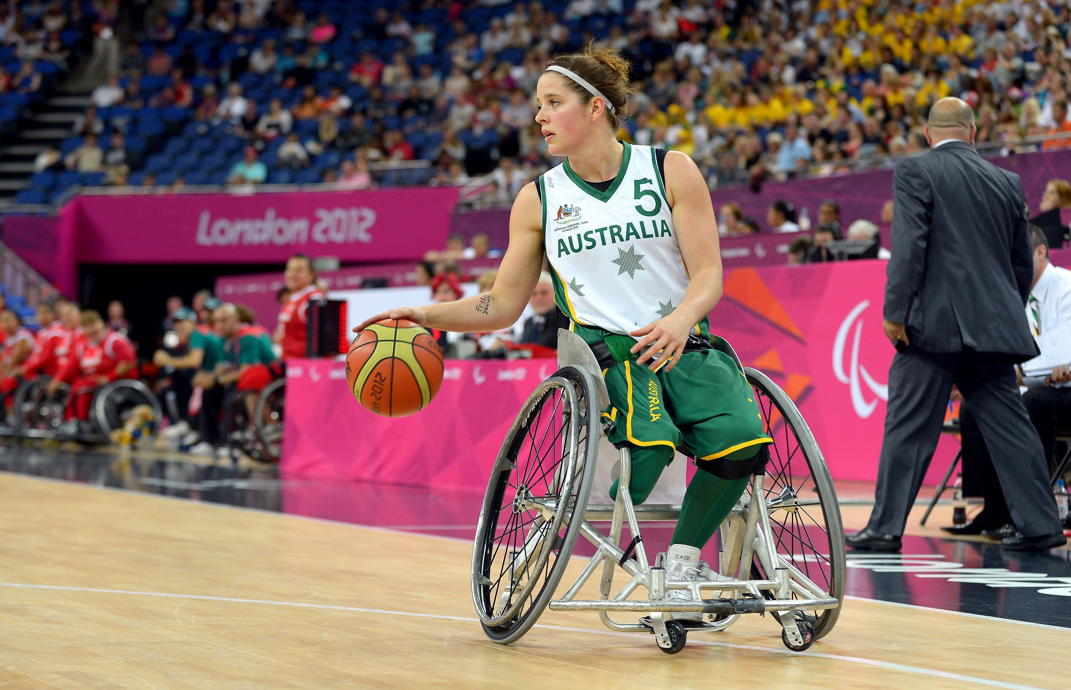 Photograph of Australian Paralympic team member Cobi Crispin at the 2012 Summer Paralympic Games in London